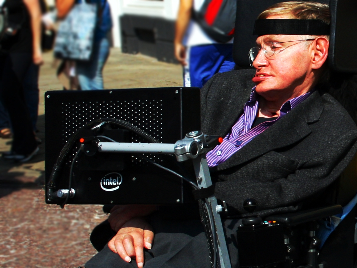 Professor Stephen Hawking in Cambridge, UK.